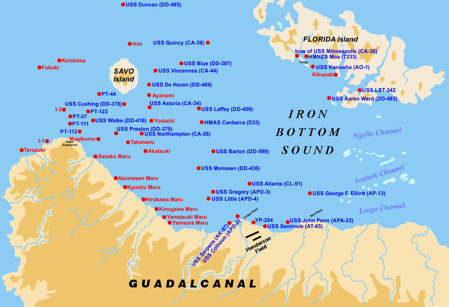 Map of the location of World War II shipwrecks in Ironbottom Sound in the Solomon Islands. Some wreck positions are not exactly known.